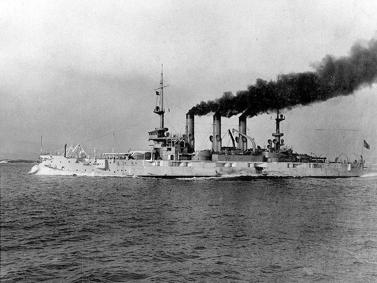 USS Kansas (BB-21) Making 18.294 knots while running trials in 1906. Note that the ship's 7-inch broadside guns have not yet been installed.